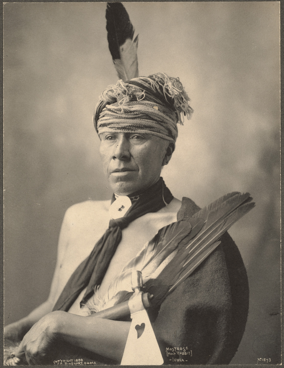 Mosteose (Holy Rabbit), Iowa